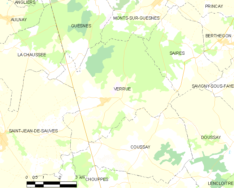 Map of French municipality Verrue